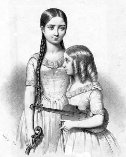 Italian violinist and composer Teresa Milanollo (1827-1904) with her sister Maria. Lithograph by Marie-Alexandre Alophe (1812-1883) after François-Gabriel Lépaulle (1804-1886).